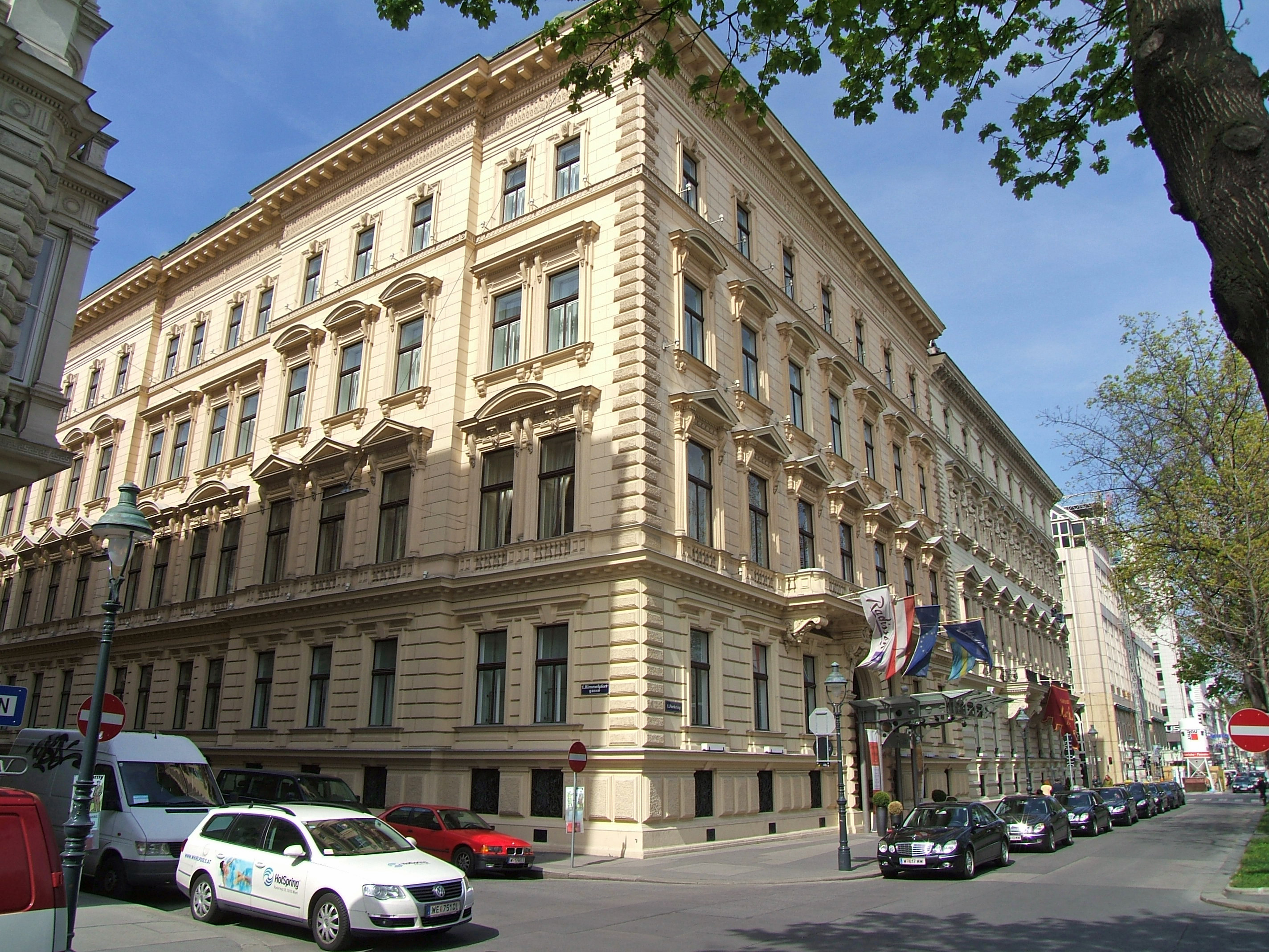 Palais Leitenberger in Vienna 1st district Parkring 16, Hotel Parkring